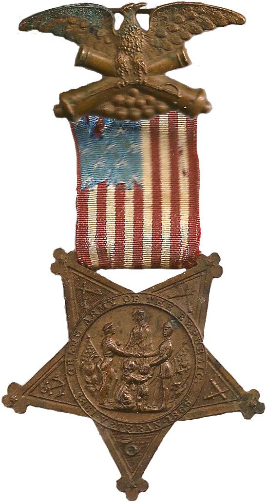 Todd Gallagher. Scanned badge which I personally own. Grand Army of the Republic Badge.